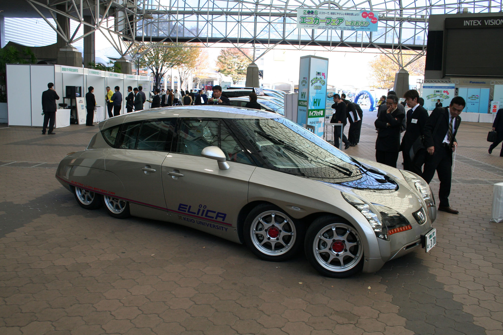 A photo of the Eliica, taken in Osaka, Japan.